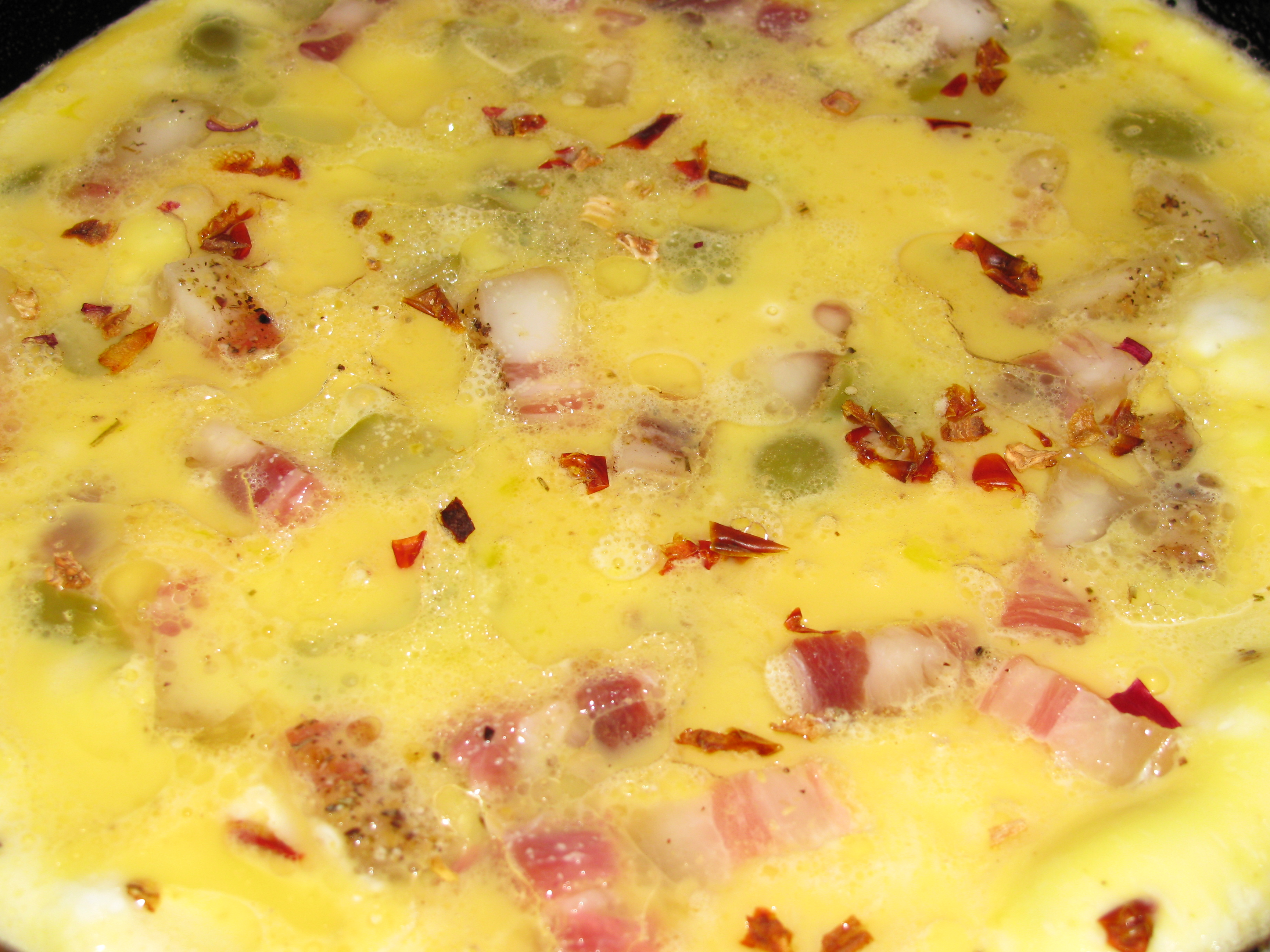 Preparation of an omelette with bacon, olives, and bell pepers